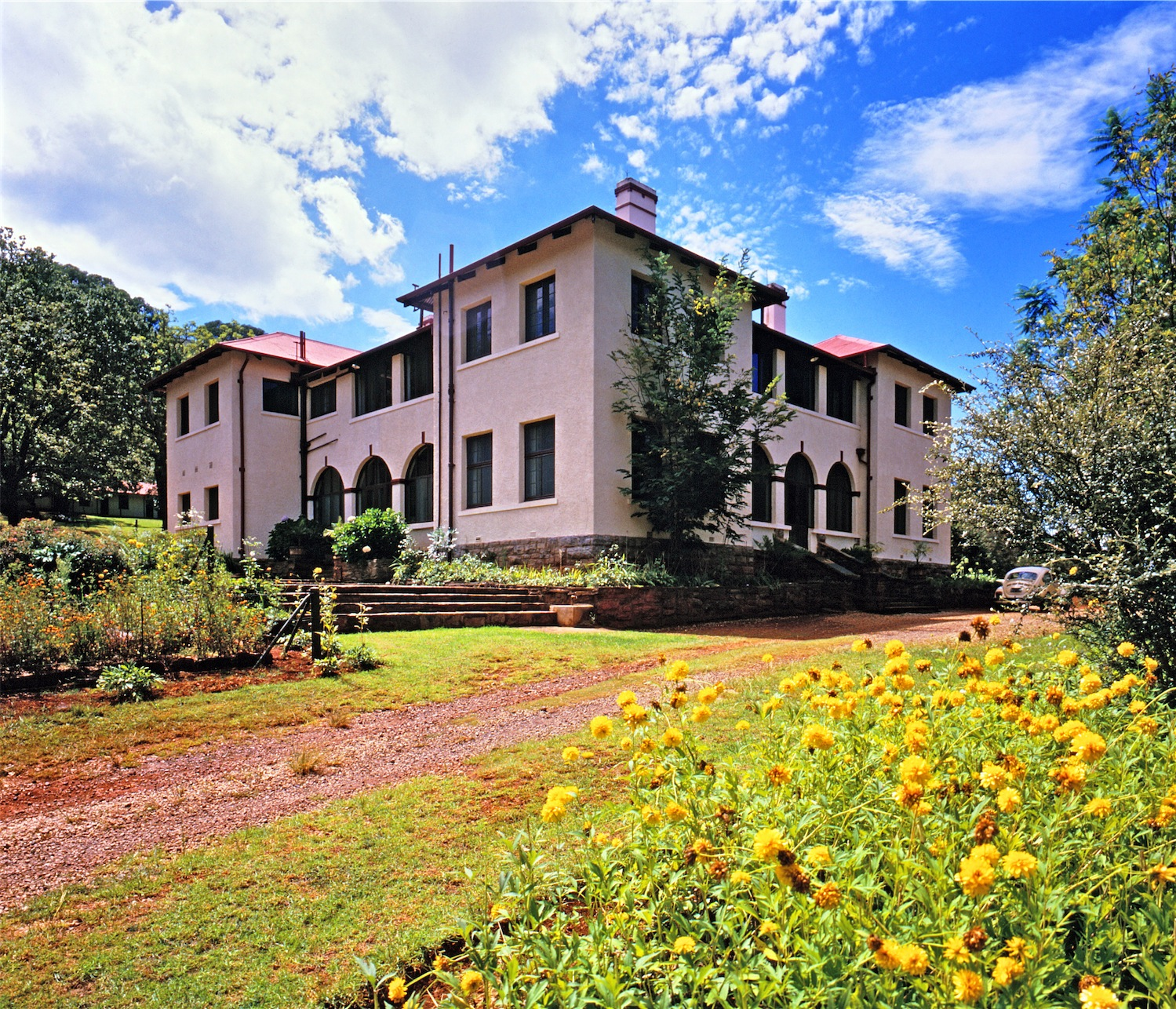 This media shows a South African Protected Site with SAHRA file reference 0000000000.